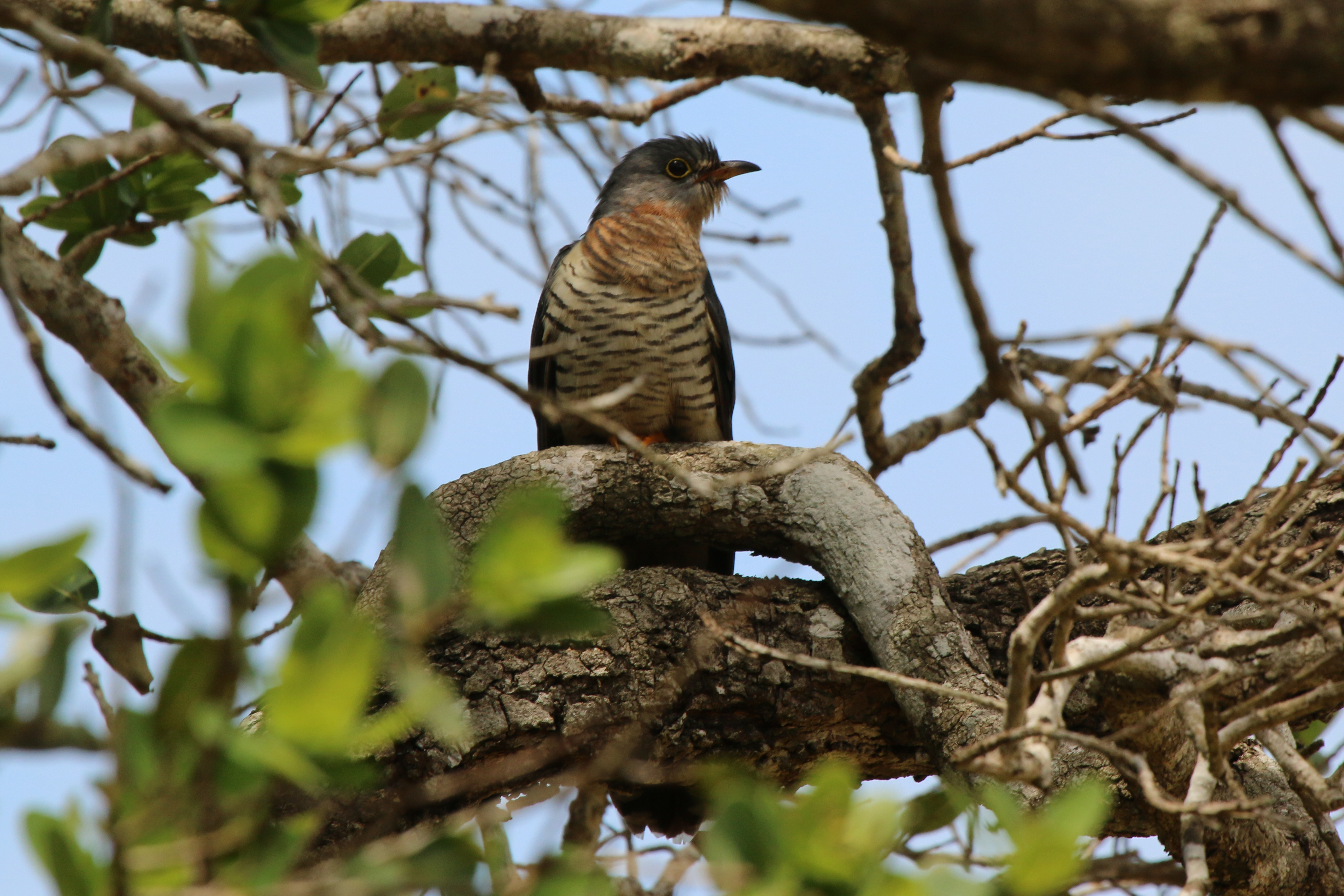 Red-chested cuckoo female, Phinda, KwaZulu-Natal, South Africa